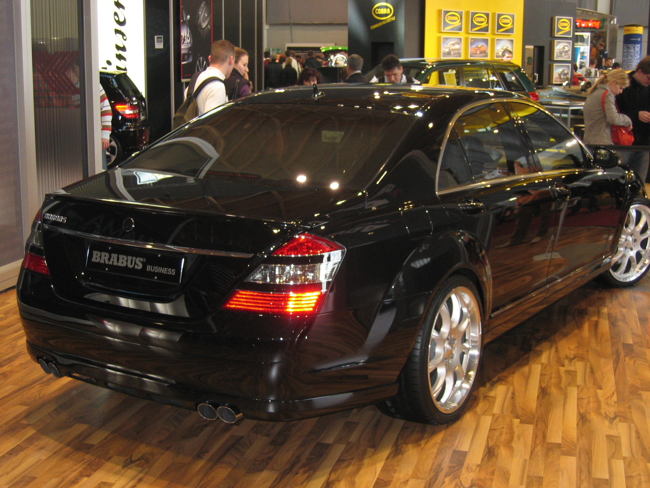 Brabus S-Class